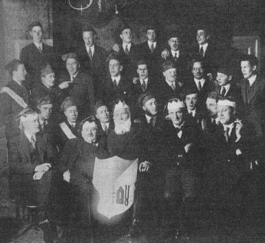 The student fraternity Jamtamot at Uppsala university in Sweden